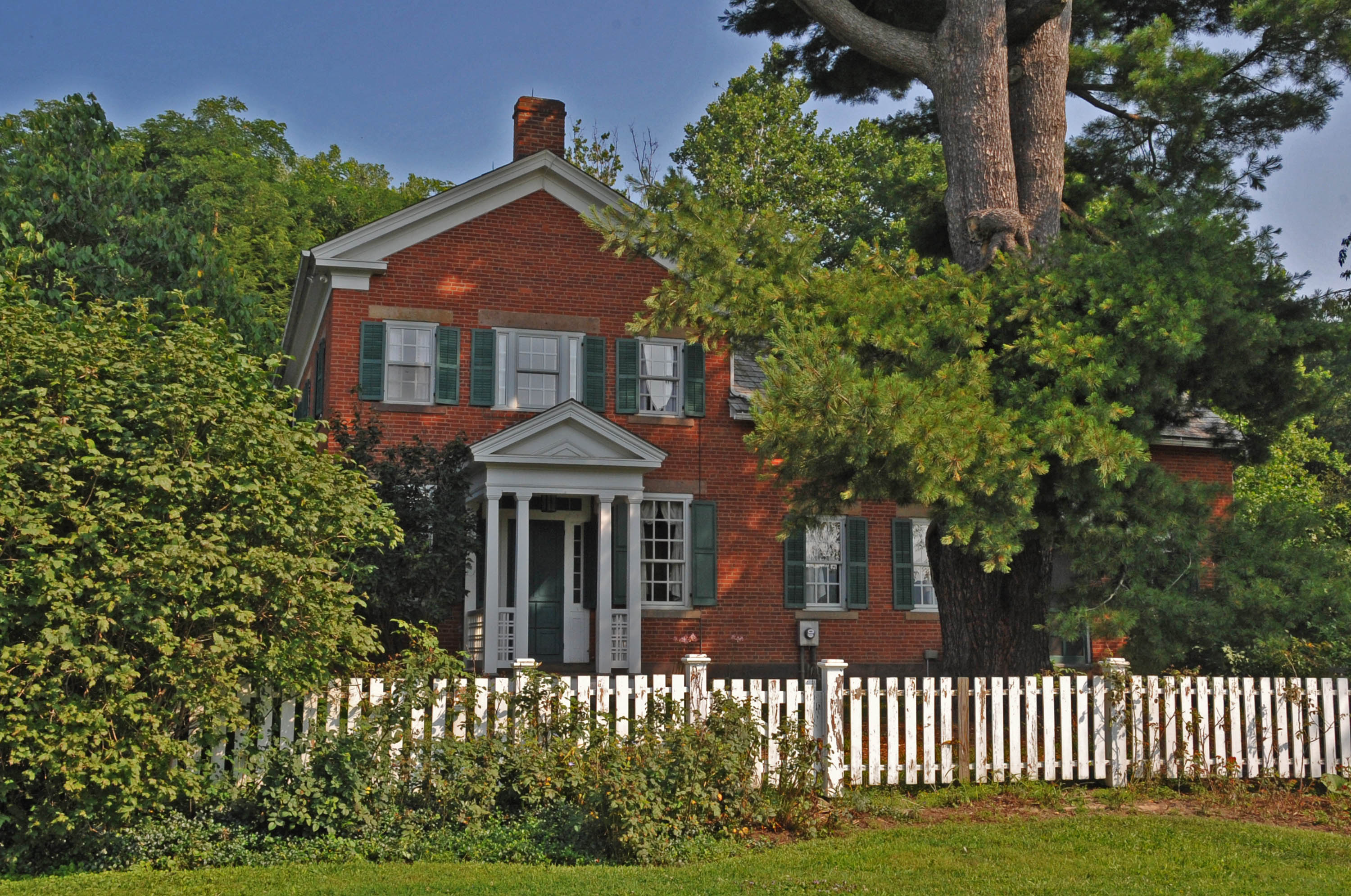 BUILT BETWEEN 1816 AND 1824; THE ORIGINAL 1 ½ STORY HOUSE WAS BUILT BY SHULL AND THE MAIN HOUSE OF 2 STORIES WAS ADDED LATER BY PETER LUGENBUHL. LOCATED ON TOWNSHIP COUNTY ROAD 670